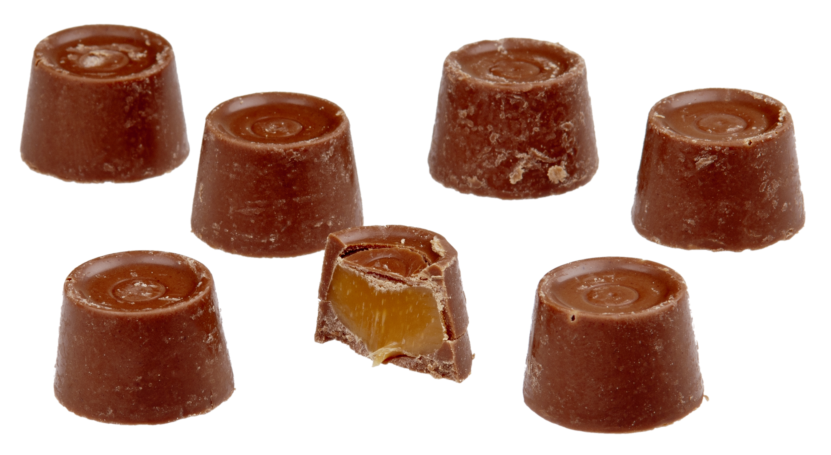 A tube's worth of American Rolo candies.